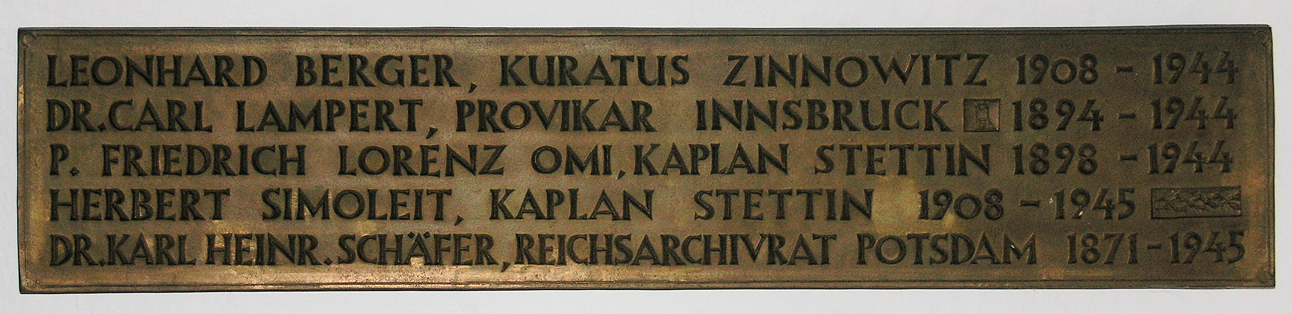 Memorial plaque, Christen im Widerstand, Hinter der Katholischen Kirche 3, Berlin-Mitte, Germany